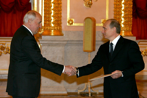 ST ALEXANDER HALL, THE GRAND KREMLIN PALACE. The letter of credential is presented by the Ambassador of the Federal Republic of Germany, Walter Jurgen Schmid.